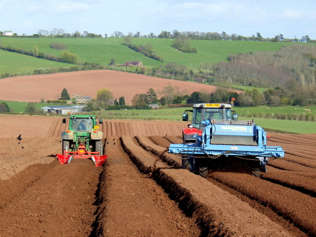 "The spuds are going in" – Work on a field near to Bromsash, Herefordshire, Great Britain. This was wheat in 2008. The farmer is hoping to plant the whole field but told me that he's going to have to try and buy some more seed. The left hand machine forms the raised beds and the right hand one de-stones them. A planter then comes in afterwards. Burton Farm can be seen in the distance.